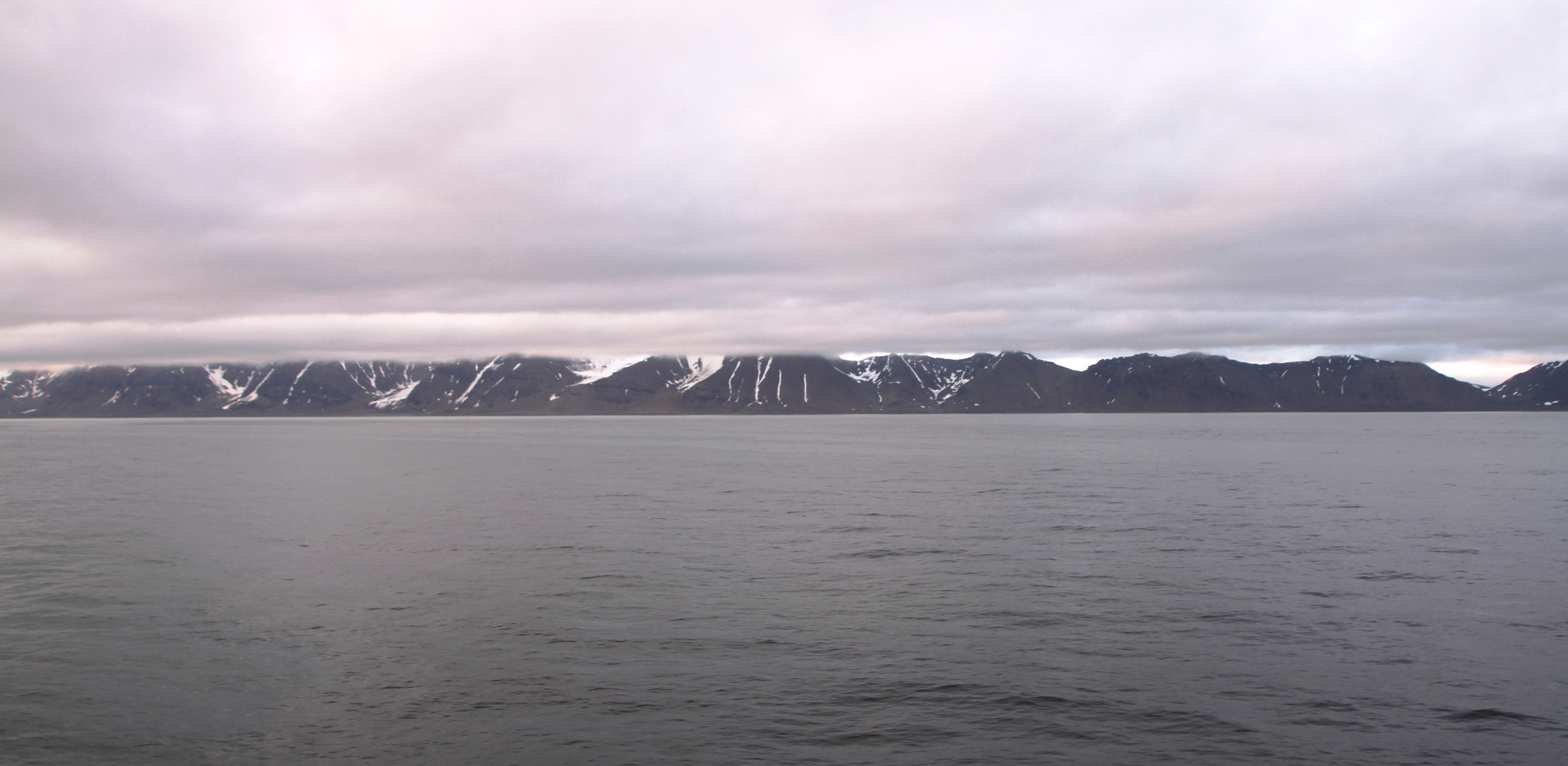 Image of the island Forlandet (Prins Karls Forland), seen from the west towars east. The photo shows a portion of the northern mountain-chain of the island. West of Spitsbergen, Svalbard.